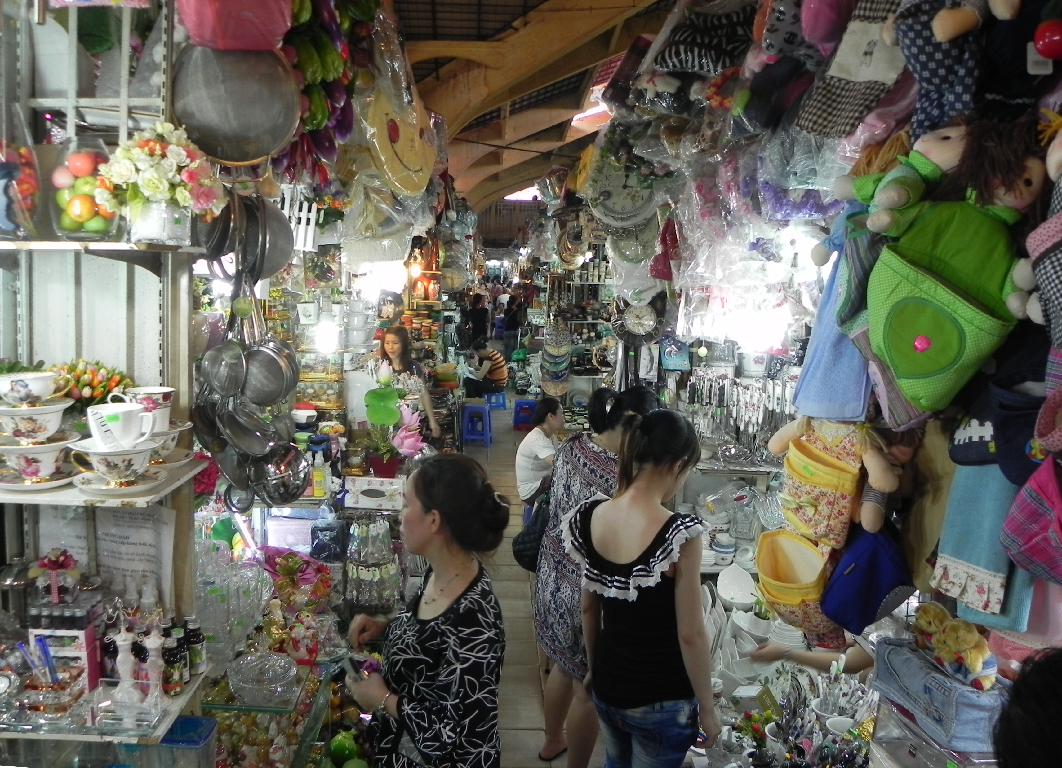 Inside Bến Thành Market, Ho Chi Minh city, Vietnam